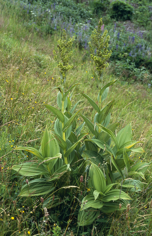 Veratrum lobelianum Bernh. (Melanthiaceae). Localization: Poland, Orlickie Mts. (Central Sudetes Mts.), Zieleniec, on fresh mountain meadow (Polygono-Trisetion community).